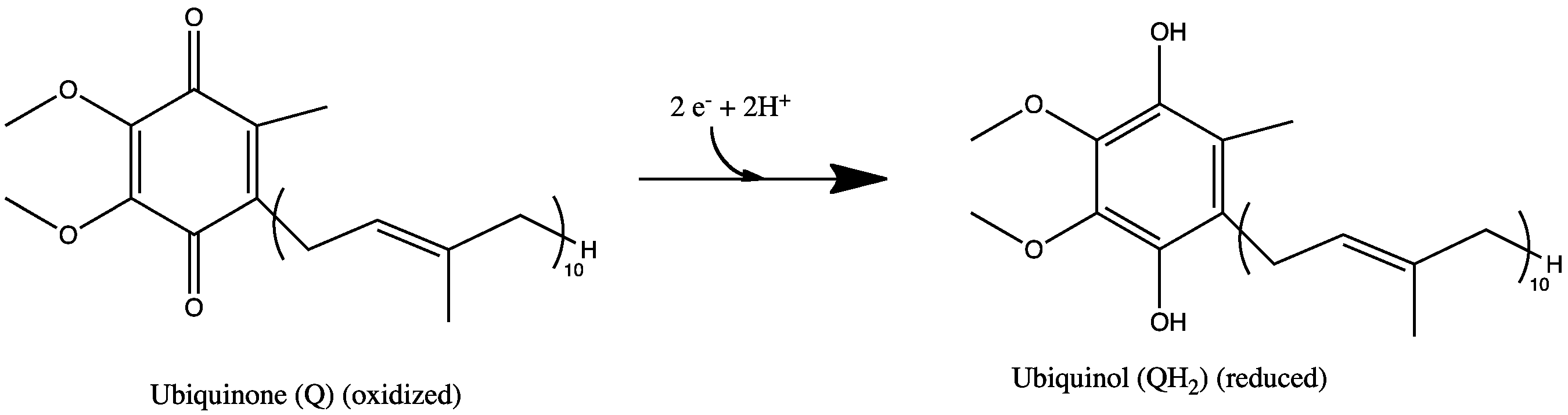 Q to QH2